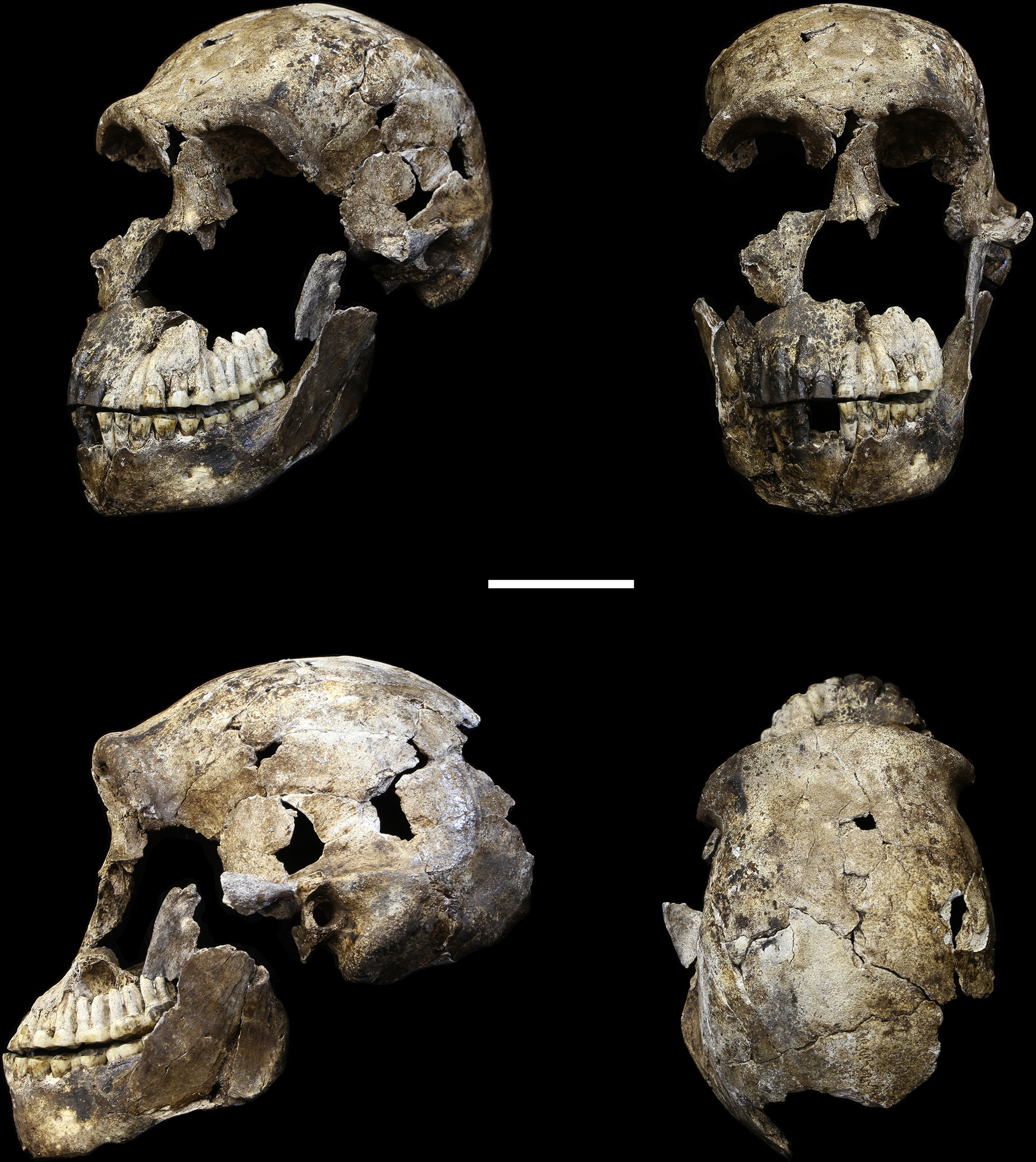 LES1 cranium. Clockwise from upper left: three-quarter, frontal, superior and left lateral views. Fragments of the right temporal, the parietal and the occipital have also been recovered (not pictured), but without conjoins to the reconstructed vault or face. Scale bar = 5 cm.